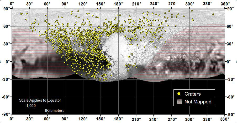 PIA20154: Craters of All Ages and Sizes Locations of more than 1,000 craters mapped on Pluto by NASA's New Horizons mission indicate a wide range of surface ages, which likely means that Pluto has been geologically active throughout its history. The Johns Hopkins University Applied Physics Laboratory in Laurel, Maryland, designed, built, and operates the New Horizons spacecraft, and manages the mission for NASA's Science Mission Directorate. The Southwest Research Institute, based in San Antonio, leads the science team, payload operations and encounter science planning. New Horizons is part of the New Frontiers Program managed by NASA's Marshall Space Flight Center in Huntsville, Alabama.